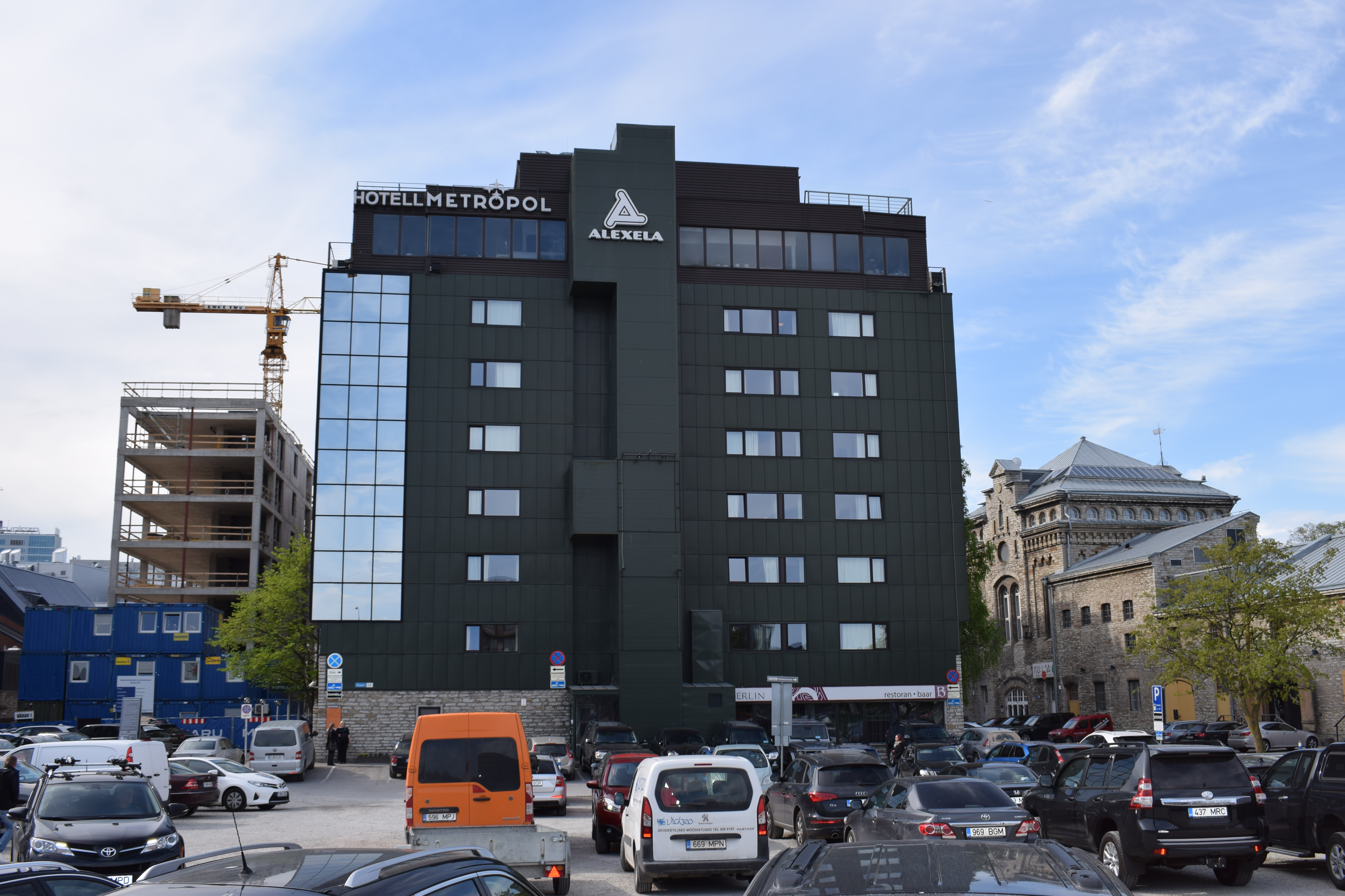 Hotell Metropol